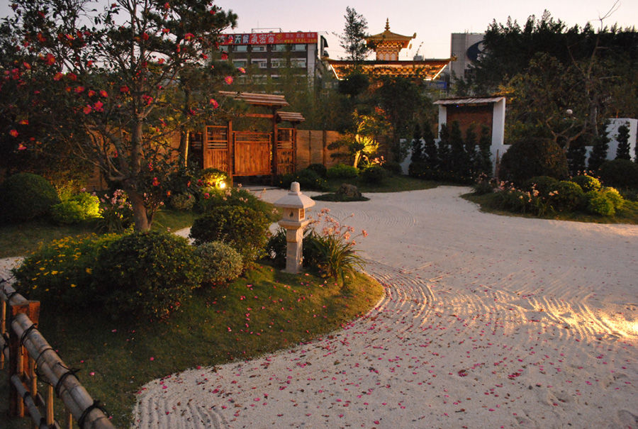 Japanese garden on Flora Expo 2010 in Taipei, Taiwan